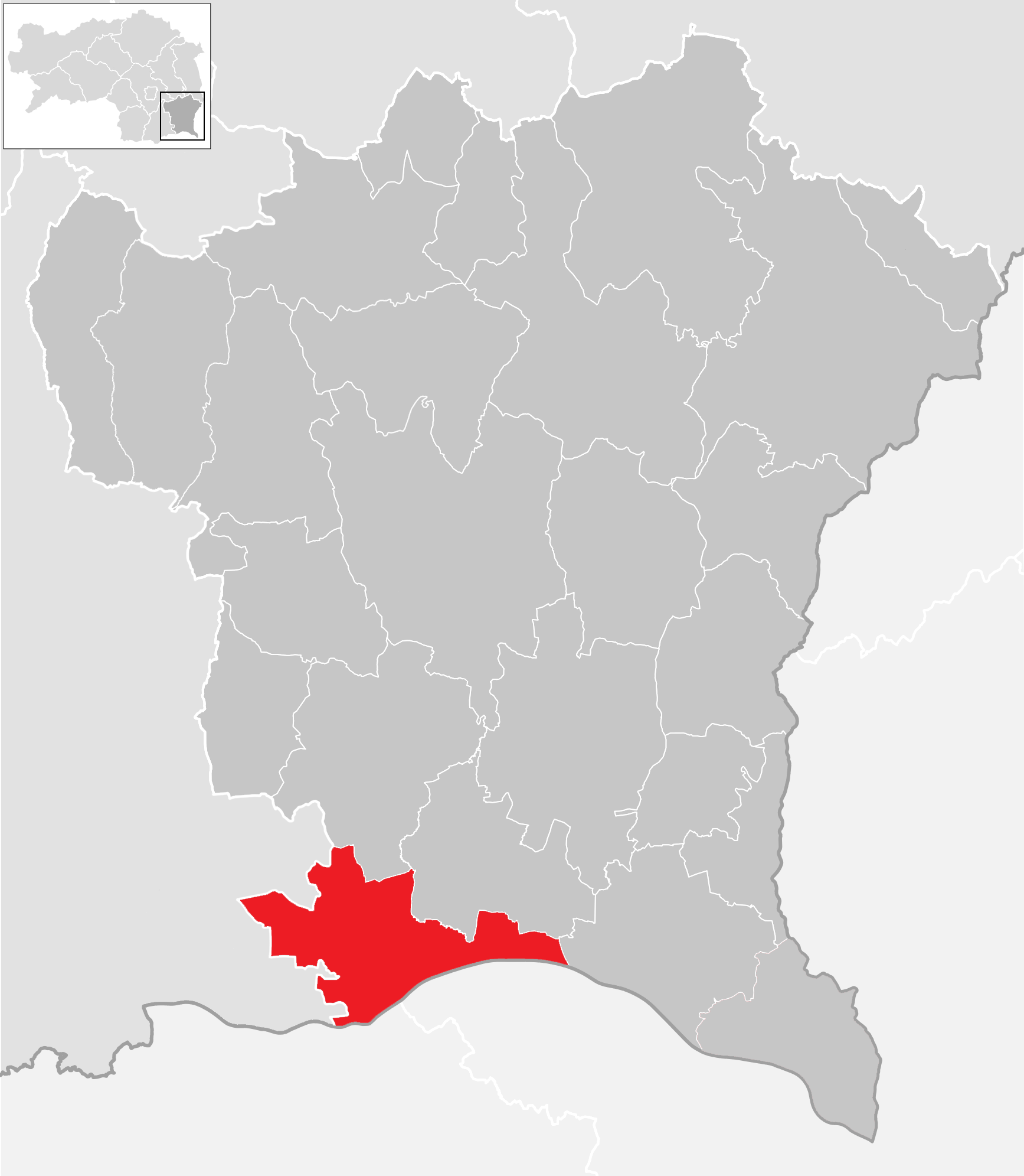 district Südoststeiermark